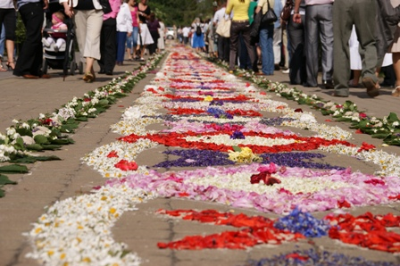 Corpus Domini celebration in Spycimierz, Poland